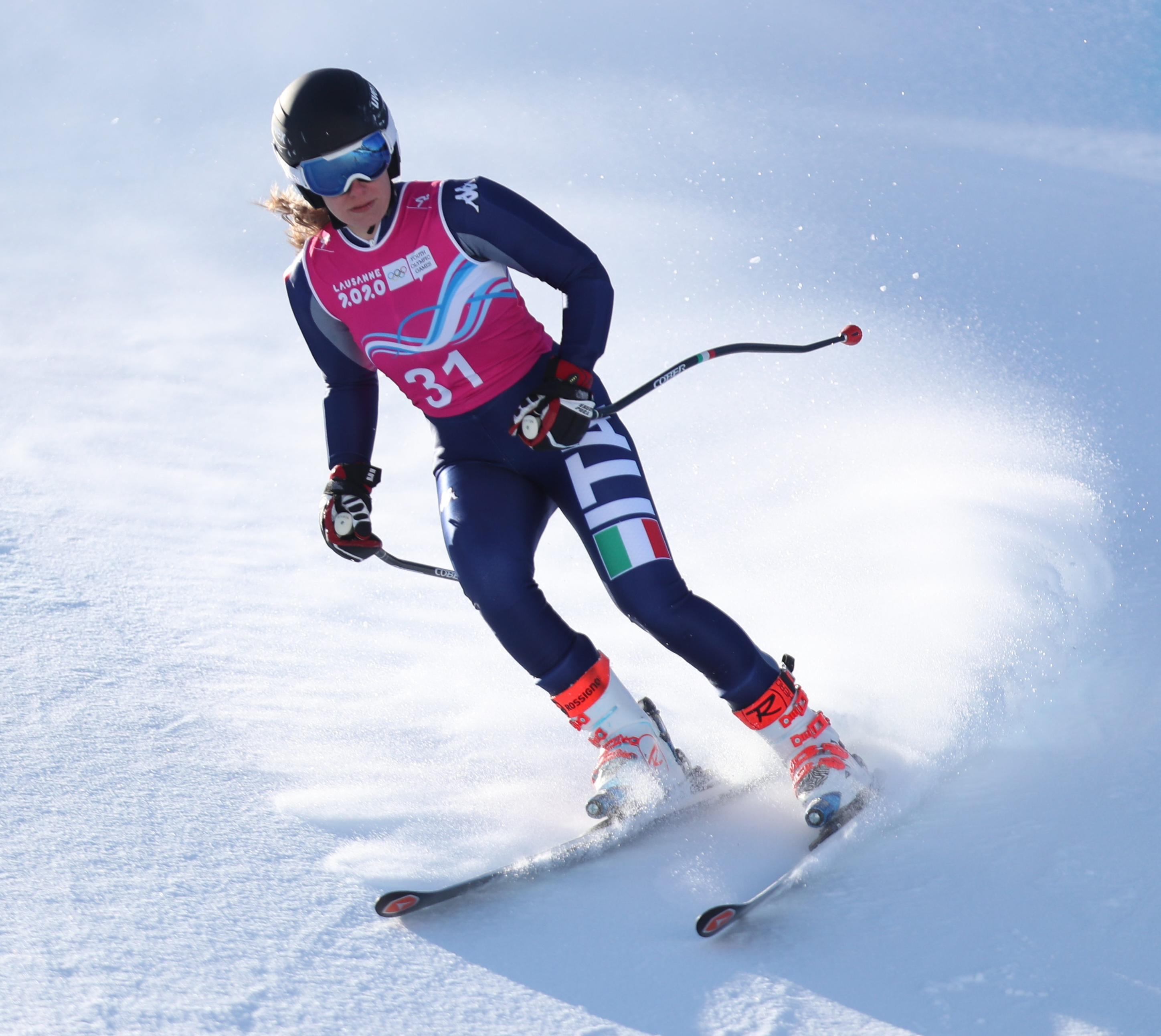 Women's Super G at the 2020 Winter Youth Olympics in Lausanne